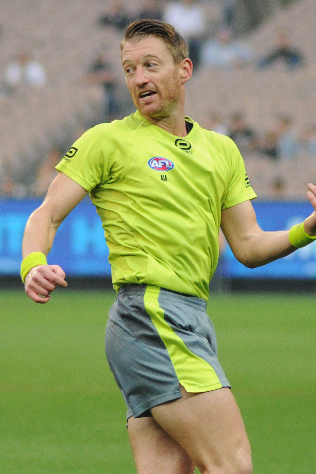 Sam Hay during the AFL round five match between Carlton and West Coast on 21 April 2018 at the Melbourne Cricket Ground in Melbourne, Victoria.